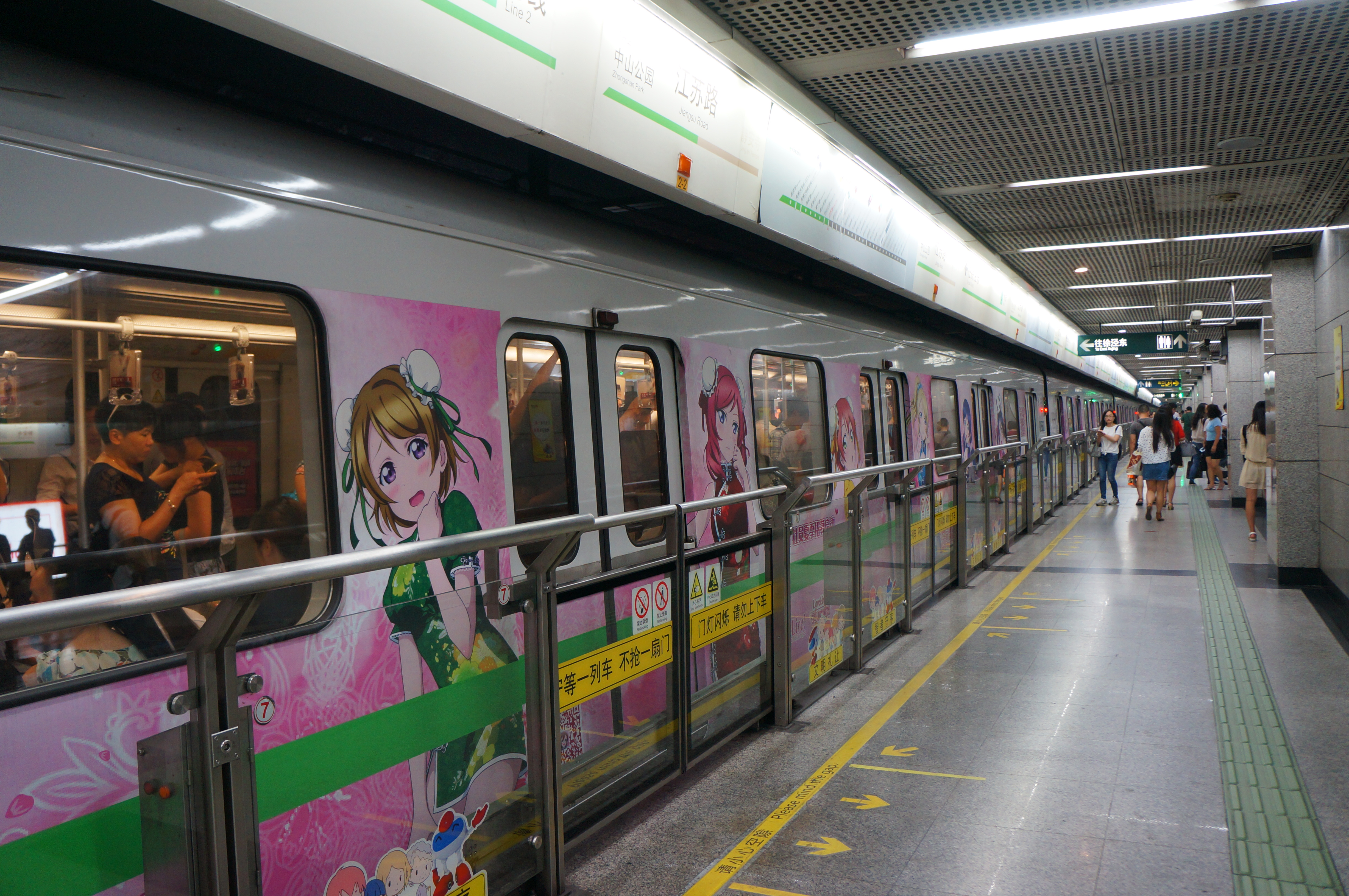 201609 Love Live Adv on AC02-209 at Jiangsu Road Station